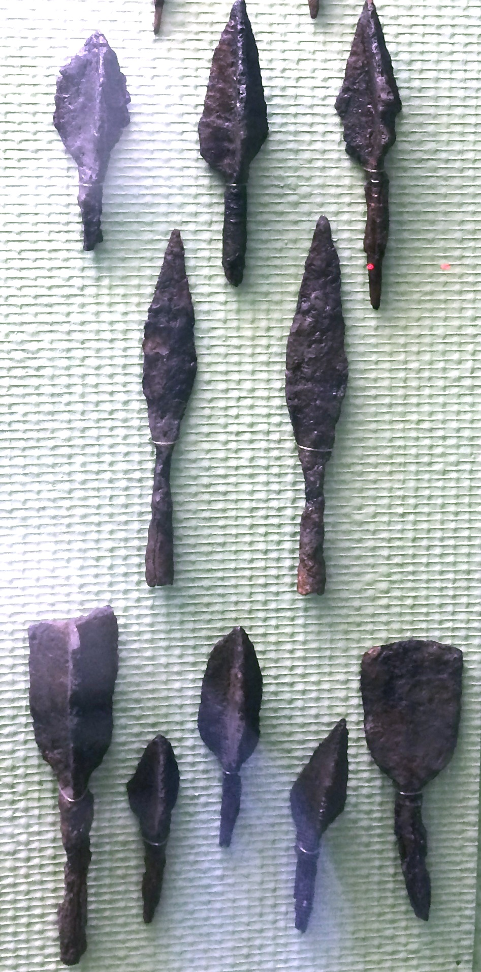 Avar metalworks from the 7-8th Century AD, Hungary.